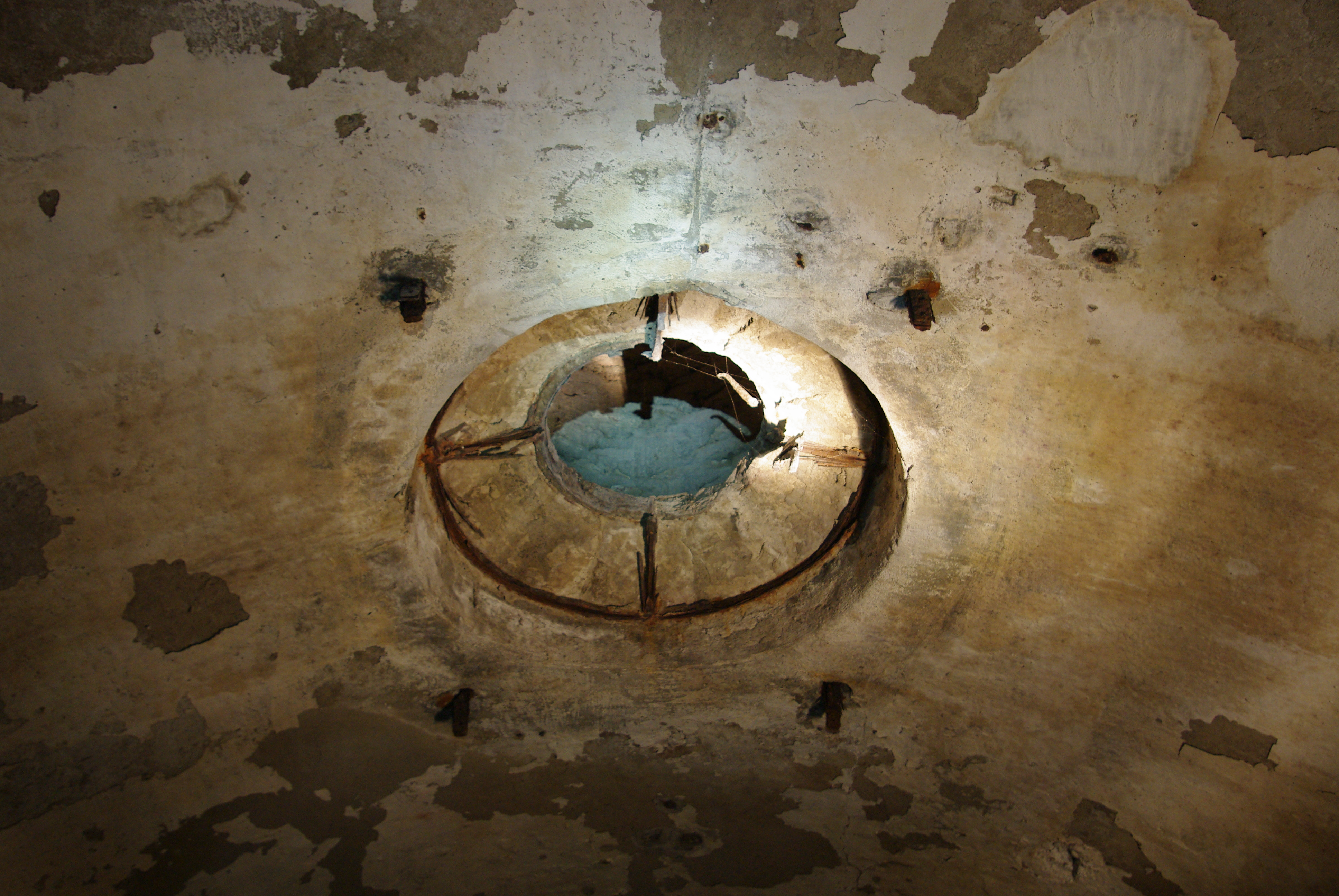 Air-raid shelter in Trieste, air-duct.